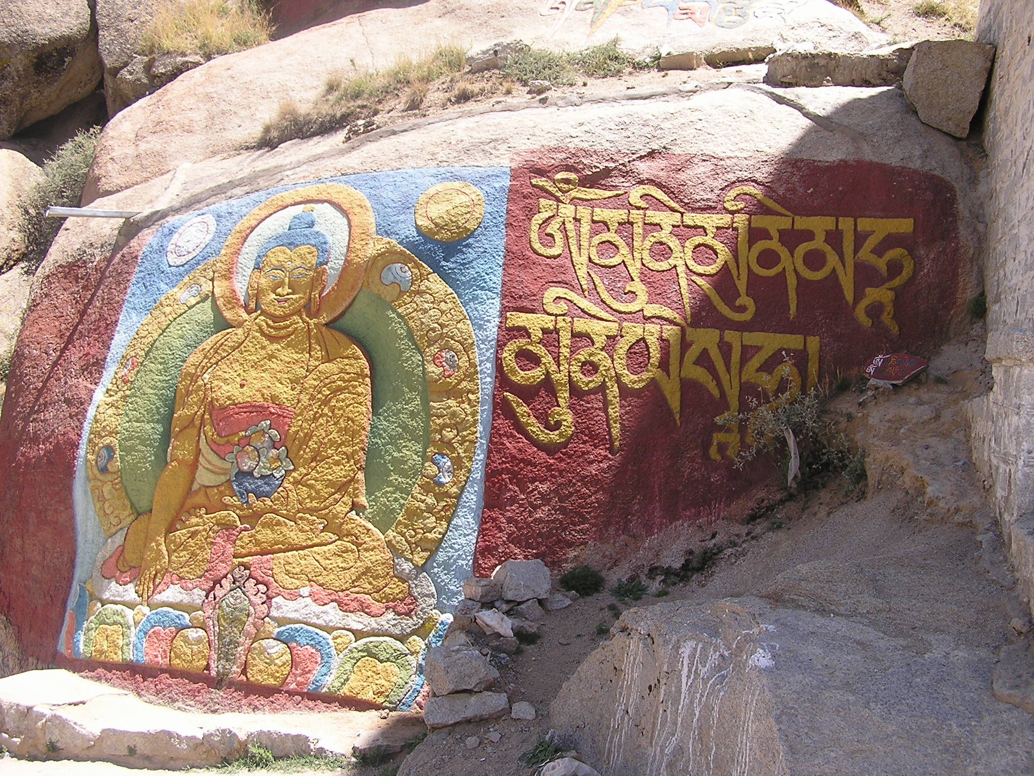 Stones near Sera.